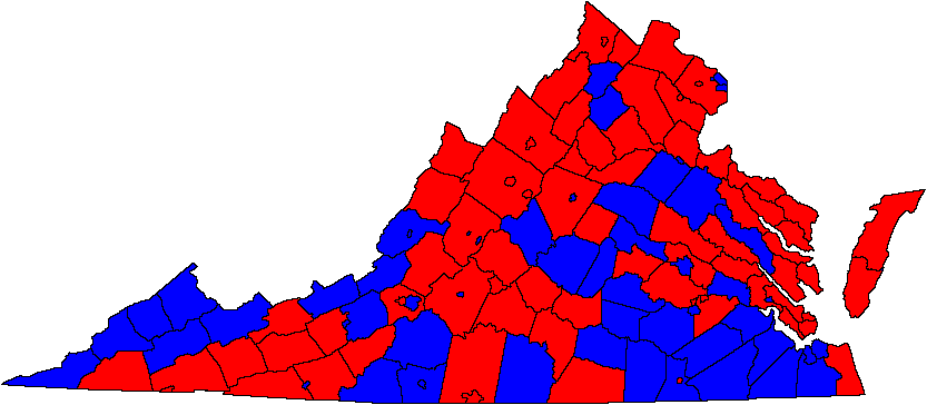 Map showing county choices of the 1982 Senate election in Virginia, between Republican Paul Trible and Democrat Richard Joseph Davis